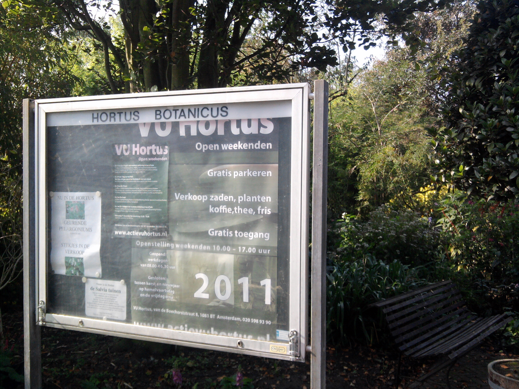 Botanical garden of the Free Univesity (VU) in Amsterdam, entrance.